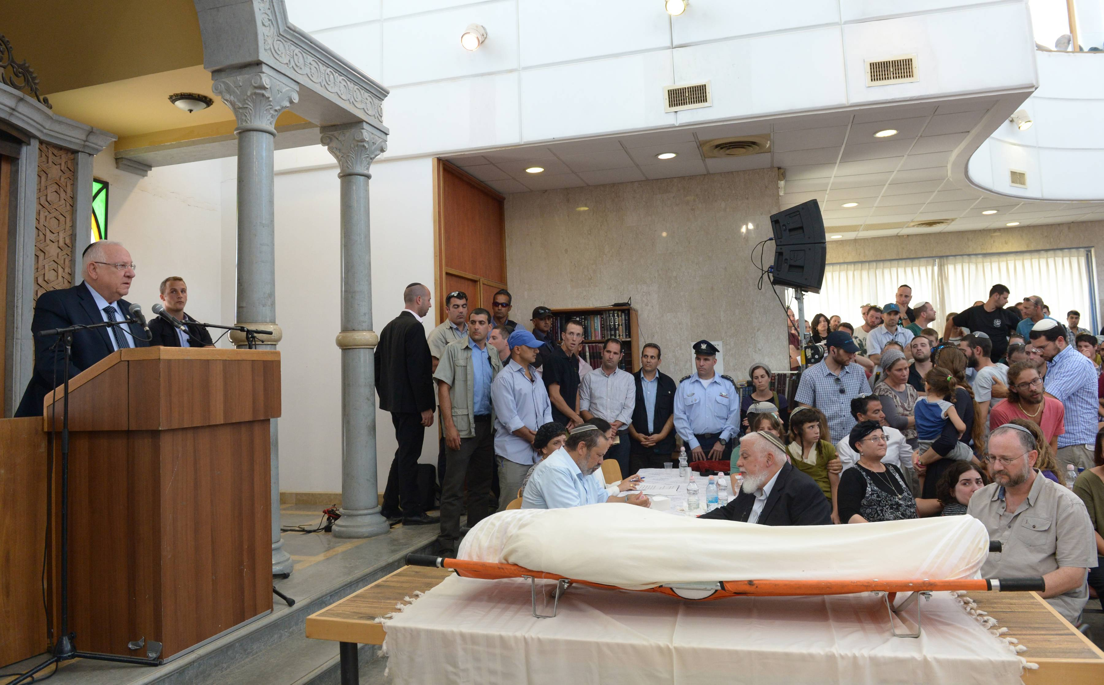 נשיא מדינת ישראל ראובן ריבלין בדברי הספד בהלוויתו של מיכאל ( מיכי ) מרק ז"ל שנרצח בפיגוע ירי בדרום הר חברון בישיבת הסדר בעותניאל